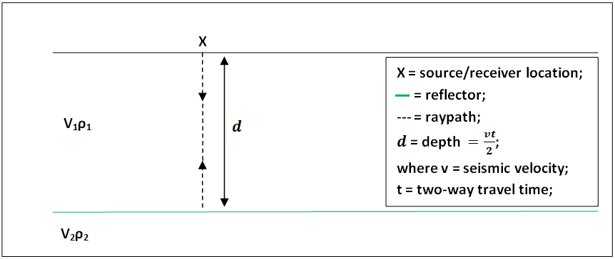 Diagram showing the zero-offset raypaths at a horizontal reflector.